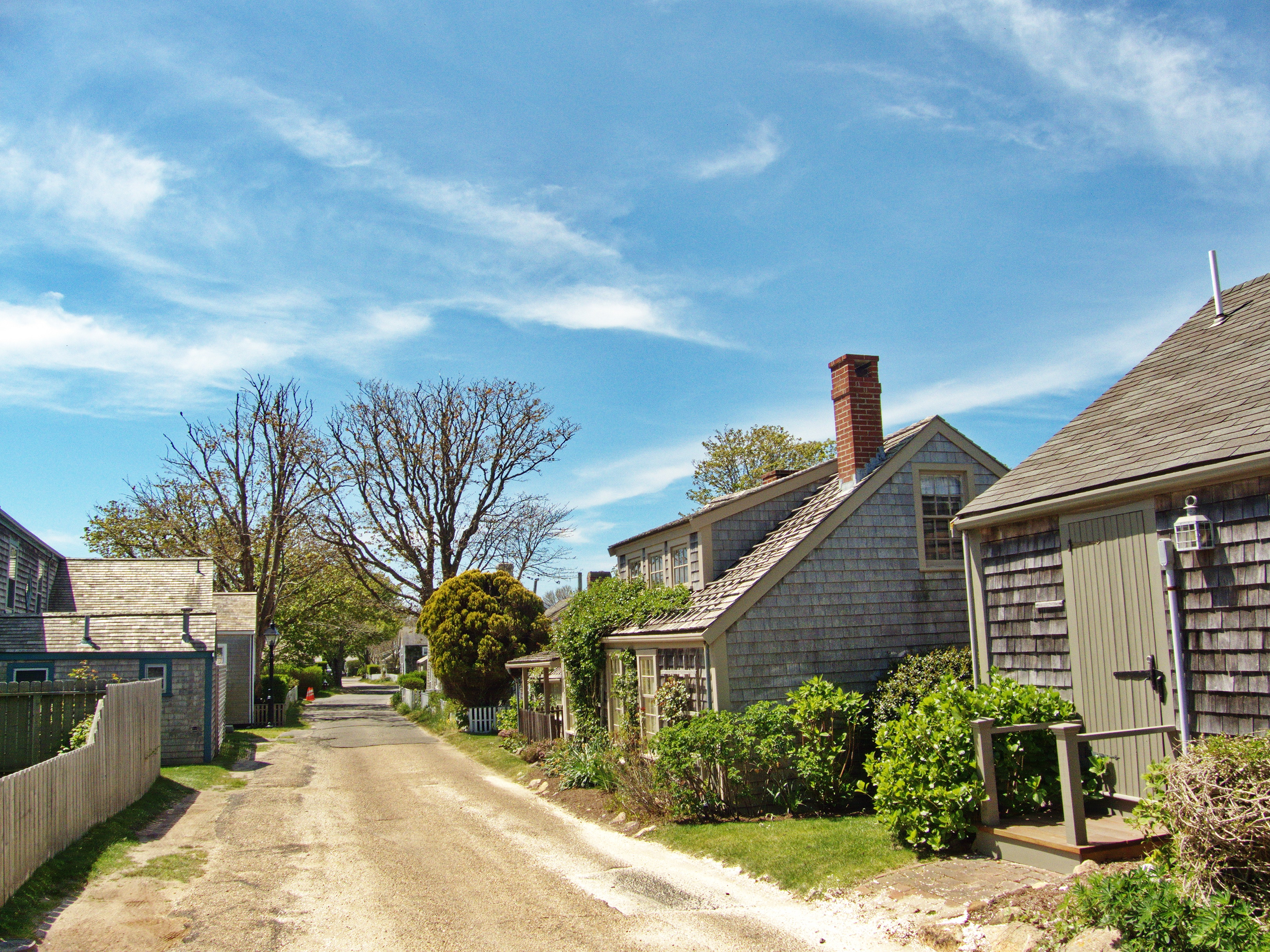 Nantucket